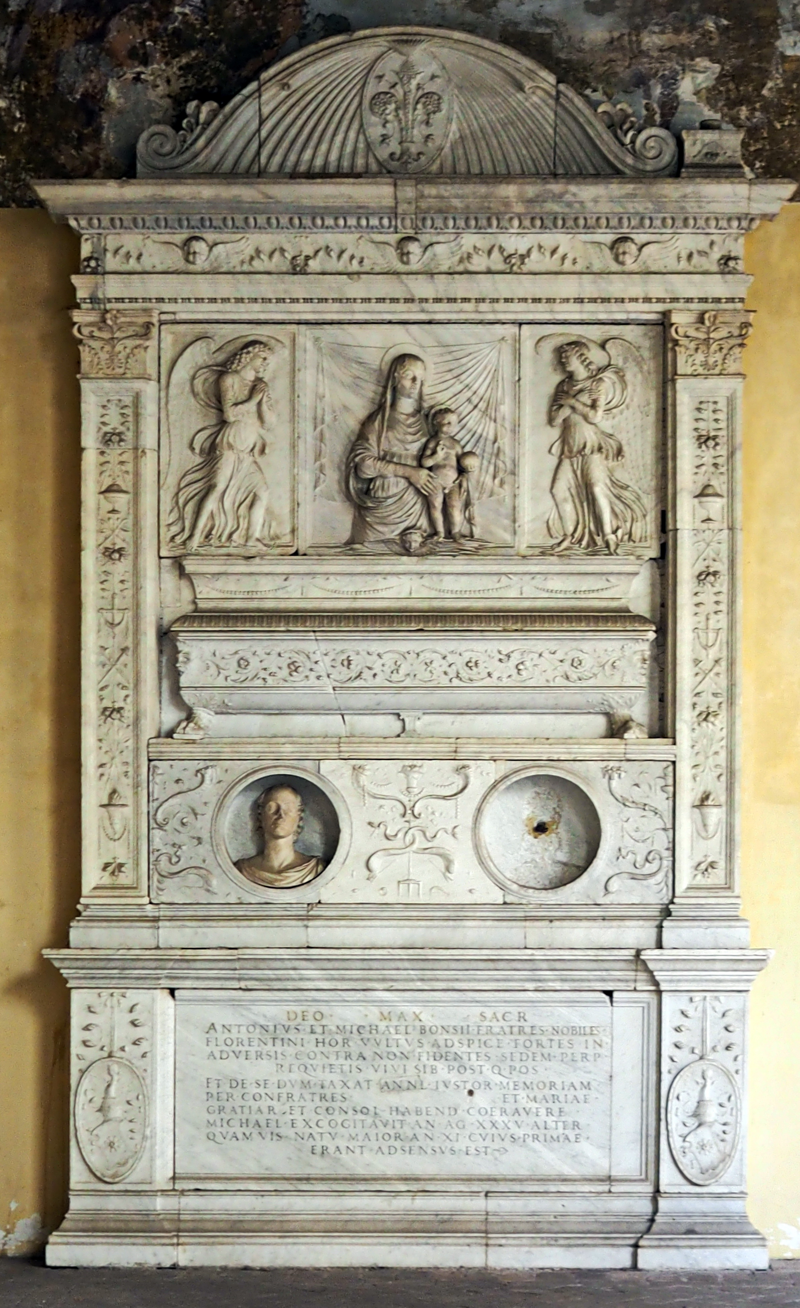 funeral monument brothers Bonsi; San Gregorio Magno (Rome); atrium; Luigi Capponi